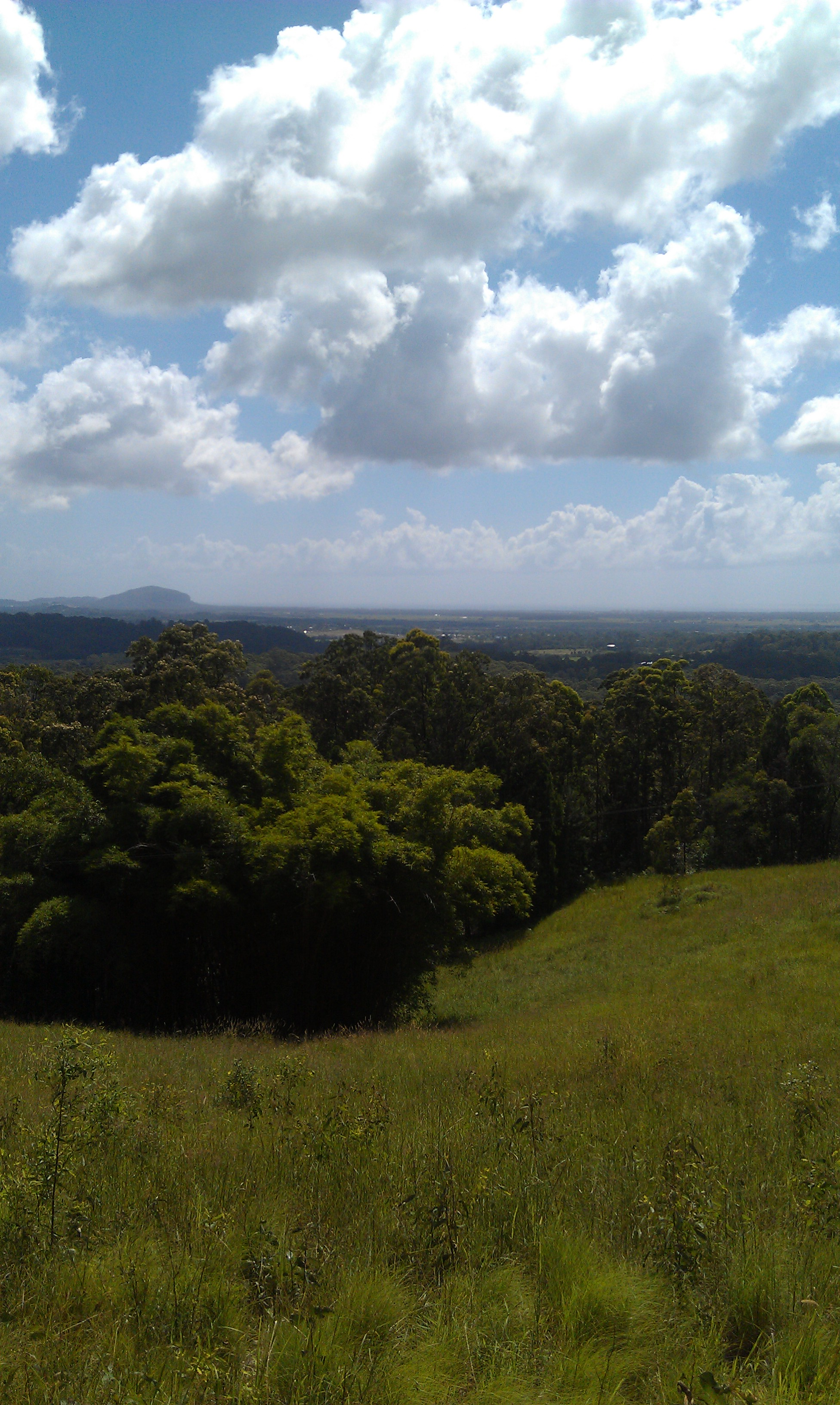 Long view from AA of coast